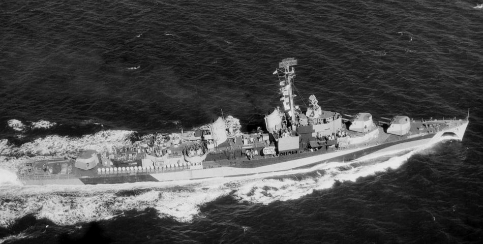 The U.S. Navy destroyer minelayer USS Shea (DM-30) underway, circa in 1944. Note the mines carried.